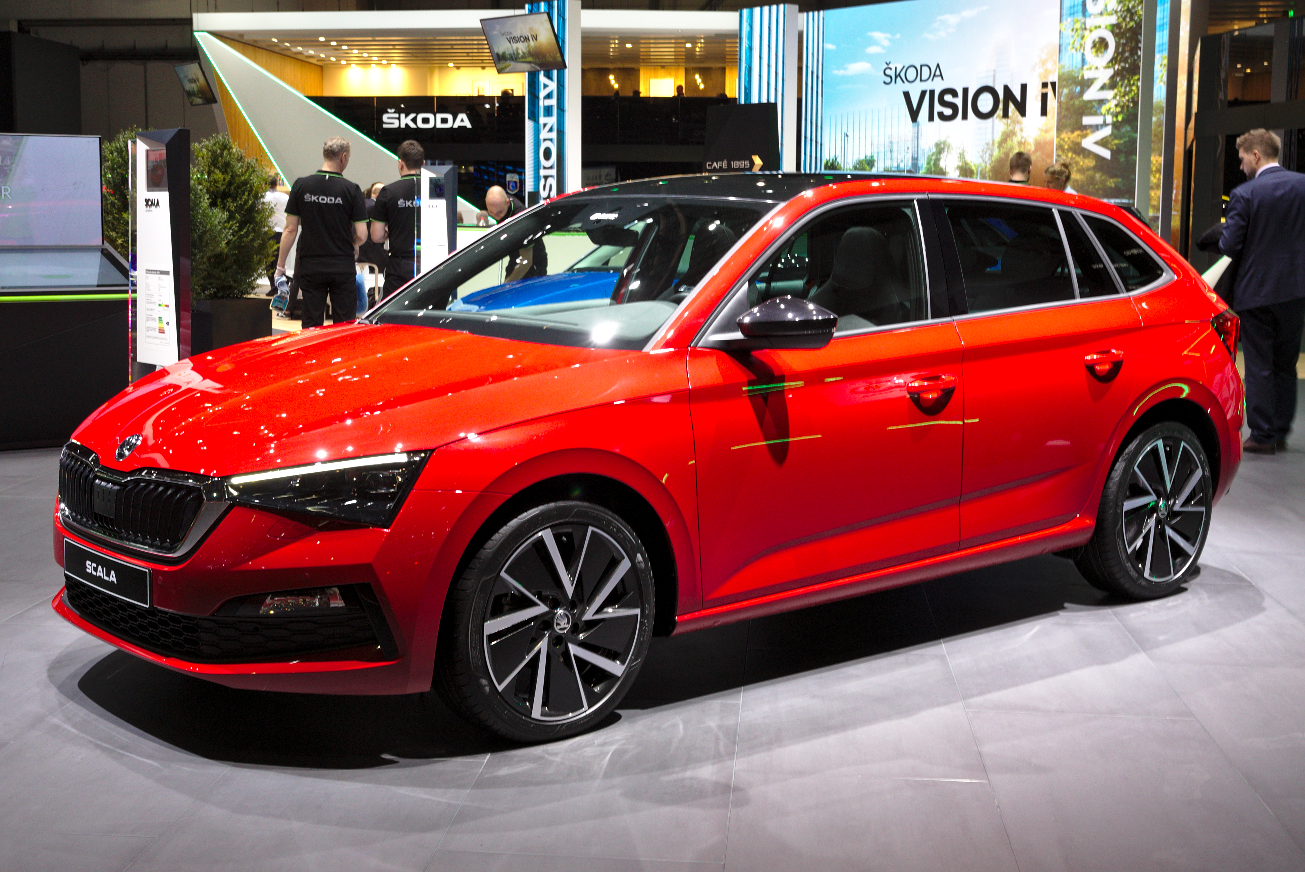 Skoda Scala at Geneva Motor Show 2019